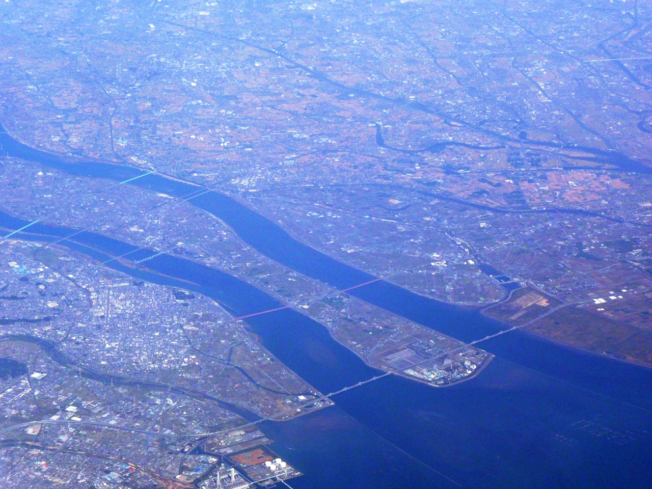 Ibi River and Kiso River running into Ise Bay